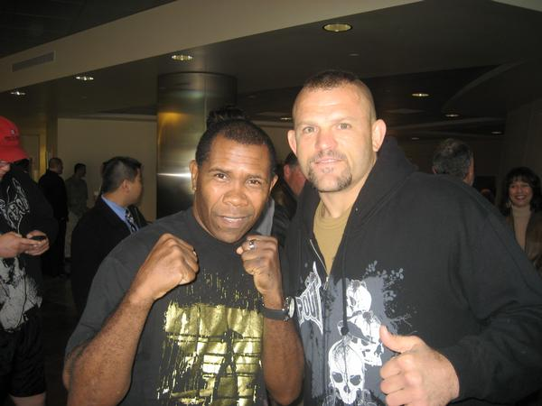 Howard Davis Jr trained Chuck Liddell in 2009